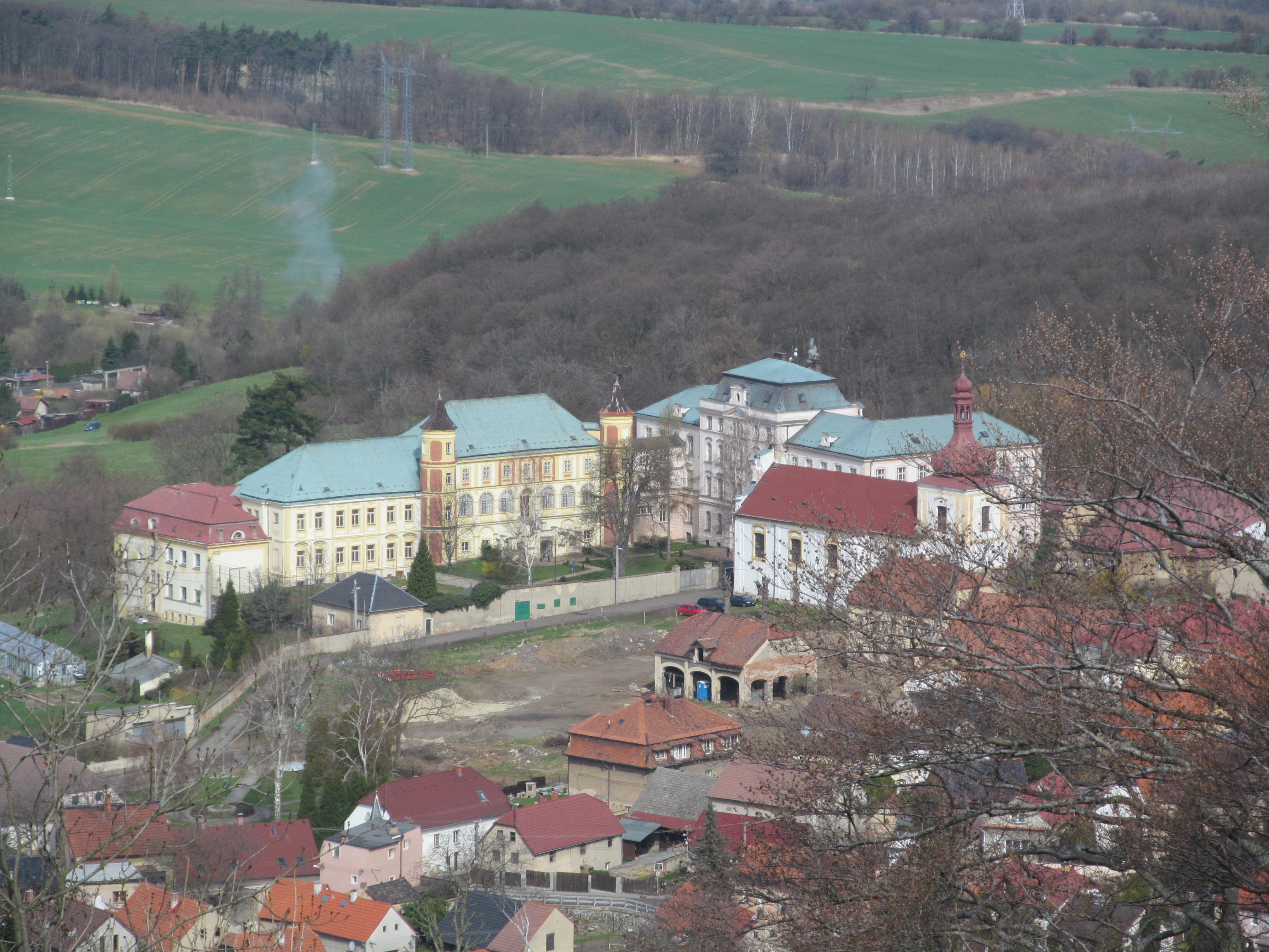 Kostomlaty pod Milešovkou castle from the ruin Kostomlaty